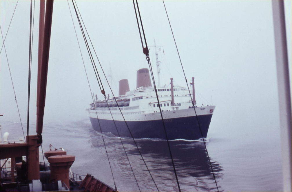 The North German Lloyd liner Europa III on the Outer Weser, 1966.